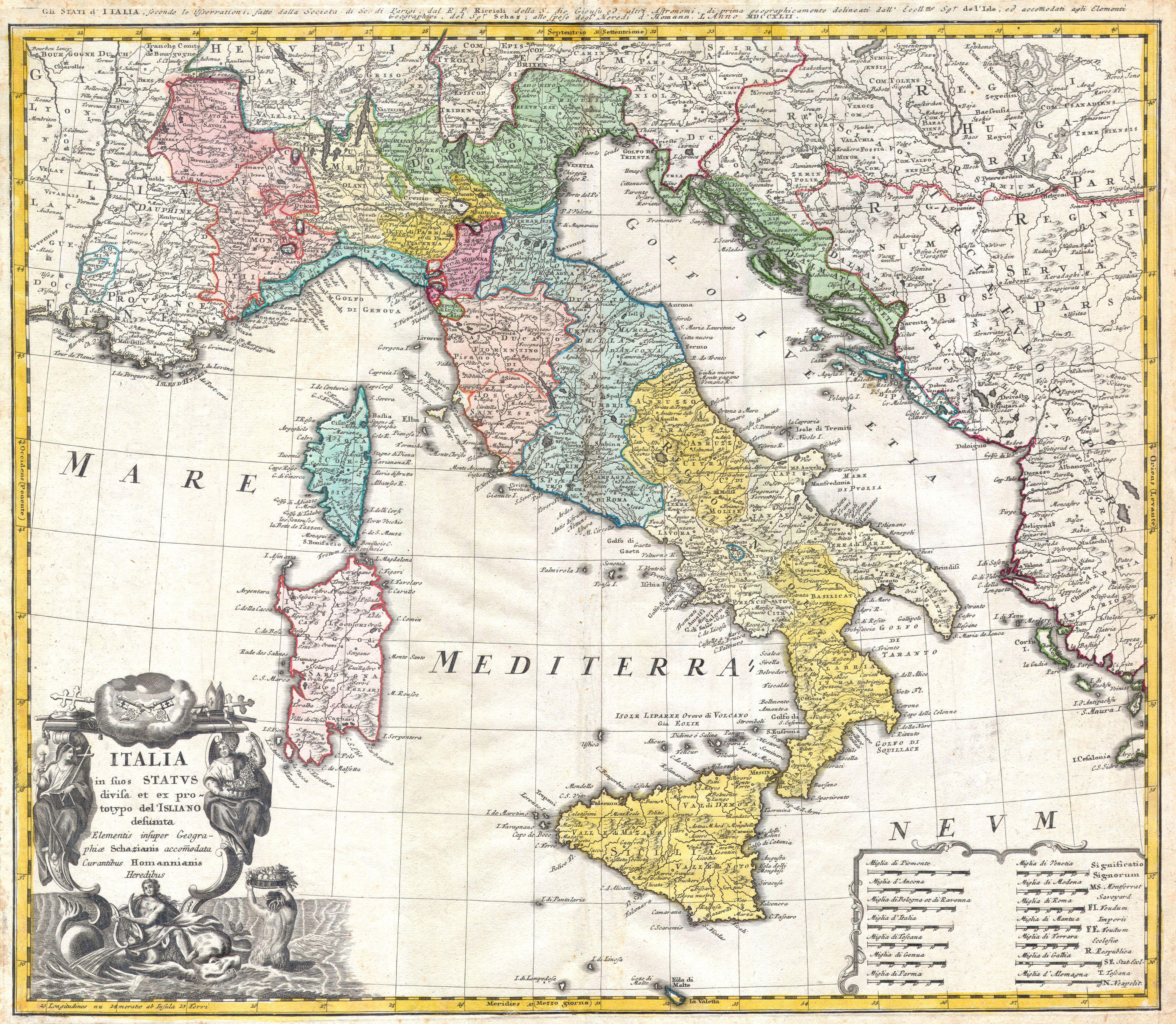 This is a find decorative map of Italy, Sardinia, Corsica and Sicily by the Homann Heirs. Based on the cartography of Guillaume de Lisle with a few updates and revisions. Depicts the peninsula divided up in to various states and duchies. A line of text at the top of the map, just outside of the border, dates the map, 1742. This map was drawn by Johann B. Homann for inclusion the 1752 Homann Heirs Maior Atlas Scholasticus ex Triginta Sex Generalibus et Specialibus…. Most early Homann atlases were “made to order” or compiled of individual maps at the request of the buyer. However, this rare atlas, composed of 37 maps and charts, was issued as a “suggested collection” of essential Homann Heirs maps. A fine copy of an important map.